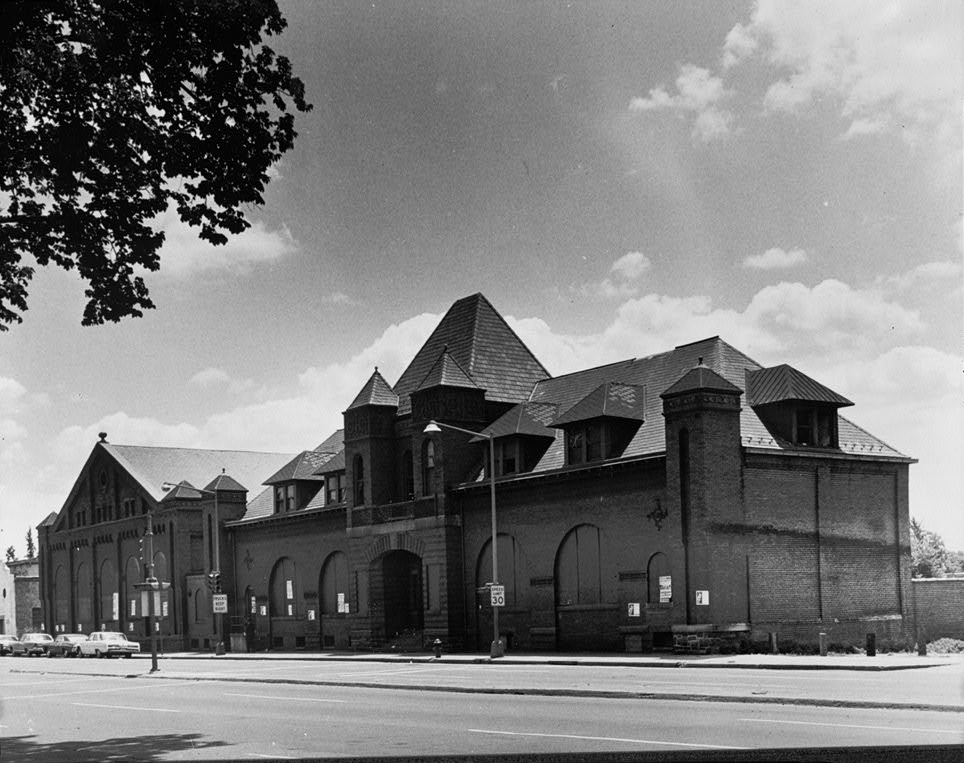 Columbia Car barn for trams in Washington, D.C. Ronald Comedy Photograper - 1970. Photograph from the HABS—Historic American Buildings Survey images of Washington, D.C.. Credits